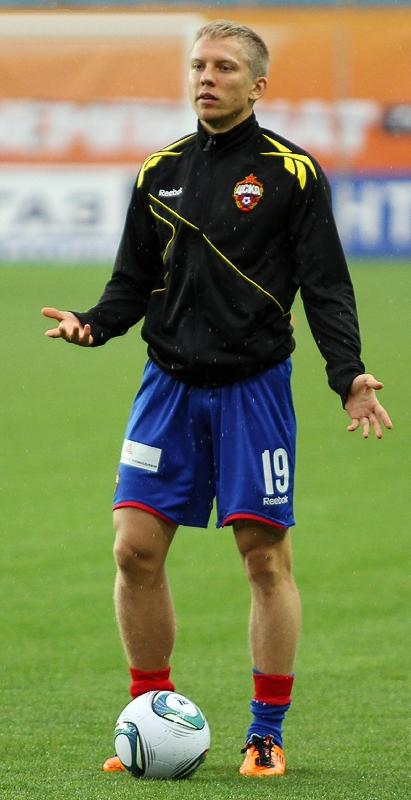 Aleksandrs Cauņa with PFC CSKA Moscow.